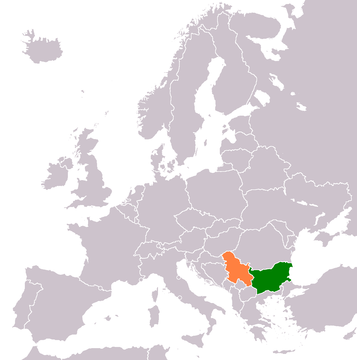 Location of Serbia and Bulgaria on the european continent.